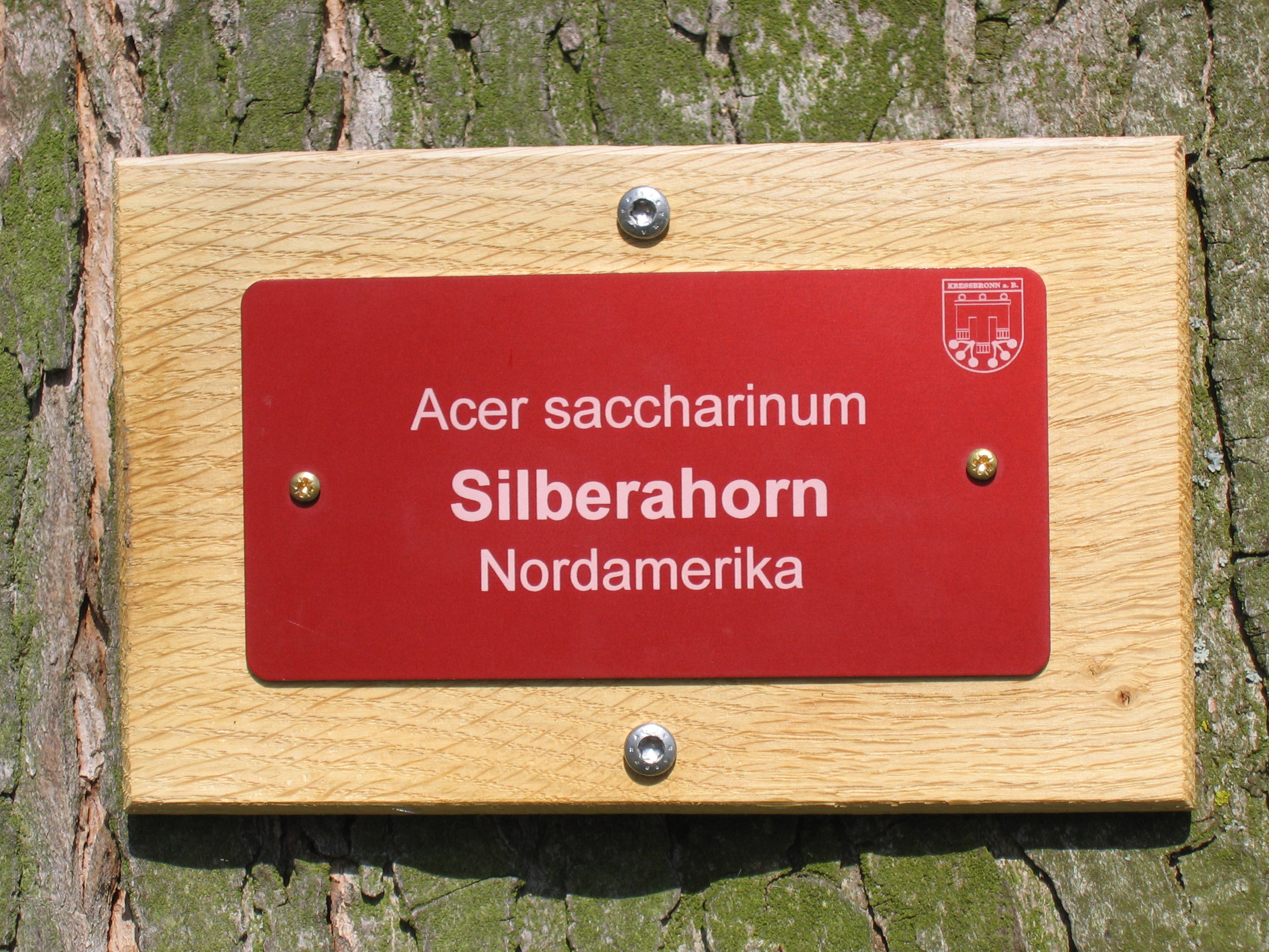 Germany - Baden-Württemberg - Bodenseekreis - Kressbronn am Bodensee: identification of a tree (silver maple) inside the 'Schlösslepark'